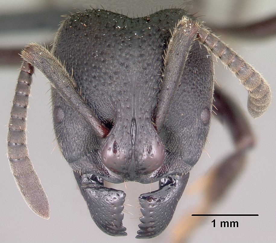 Head view of ant Bothroponera perroti specimen casent0048930.